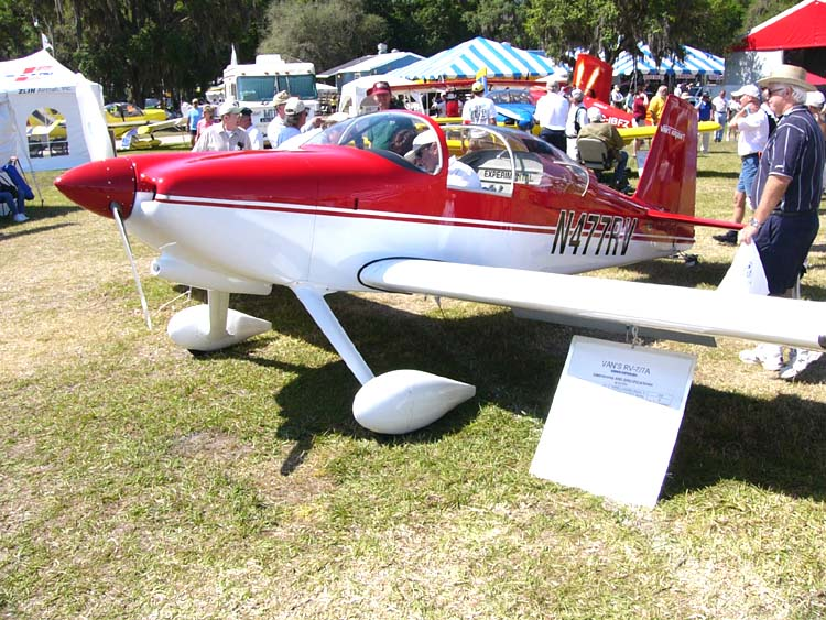 An RV-7 (N477RV) on display at Sun n Fun 2004. This is the tail wheel equipped version. I took this photo